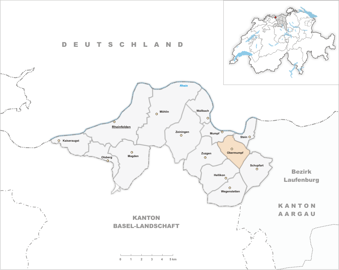 Municipality Obermumpf